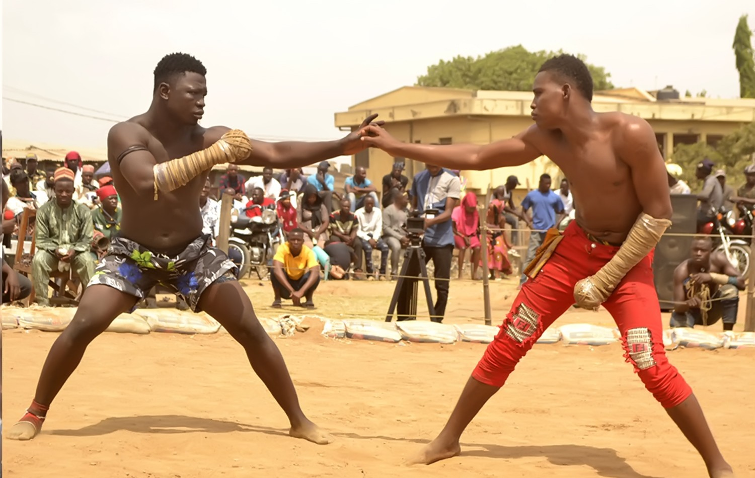 Nigerian dembe game of the hausa fulani tribe. Where local fighter come and compete for a price. The game is in such a way dat the fighters back that touches the ground losses. This is an image with the theme "Play" from: Nigeria